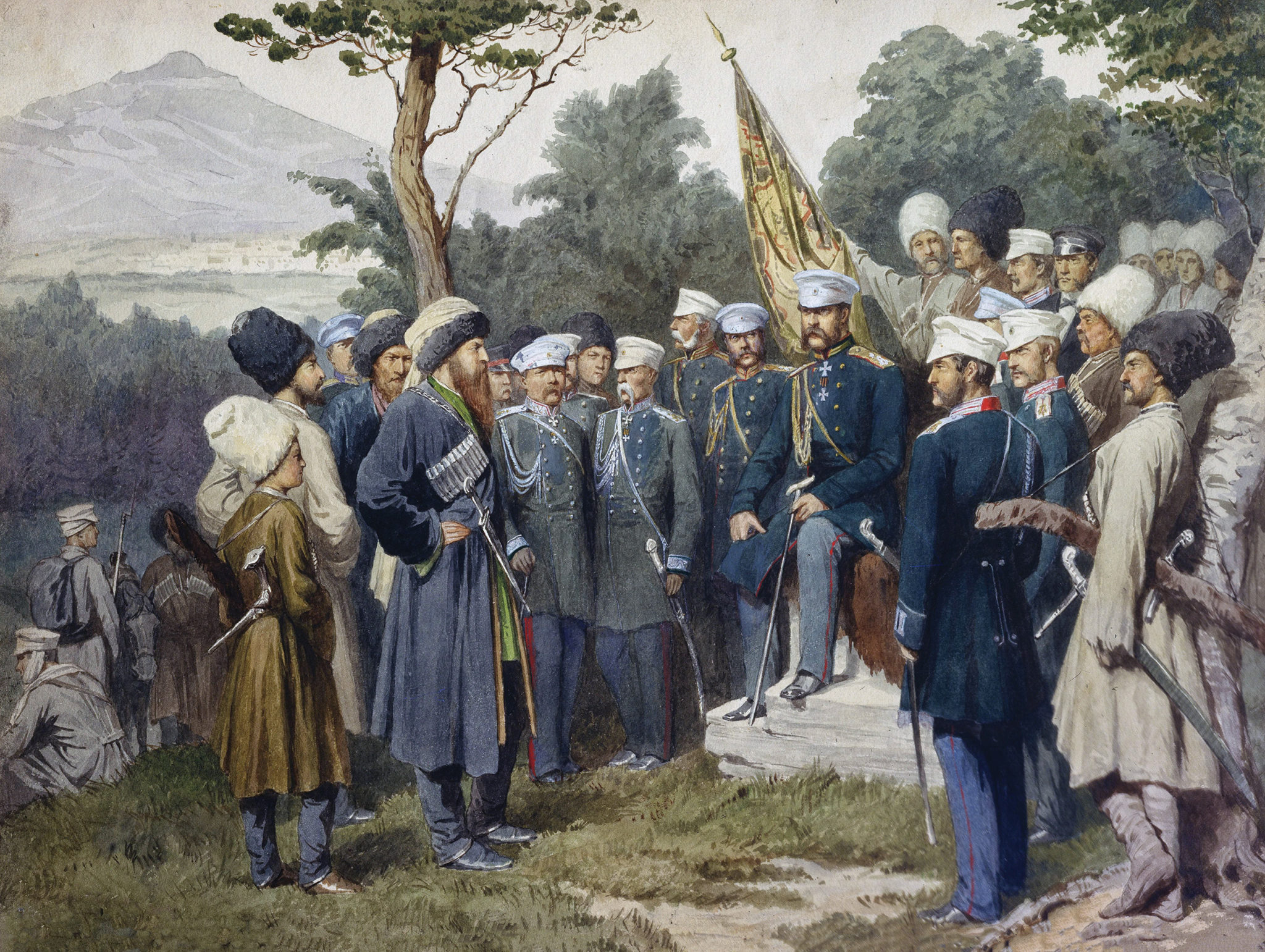 Imam Shamil surrendered to Count Baryatinsky on August 25, 1859 by Kivshenko, Alexei Danilovich (1851-1895), Russia